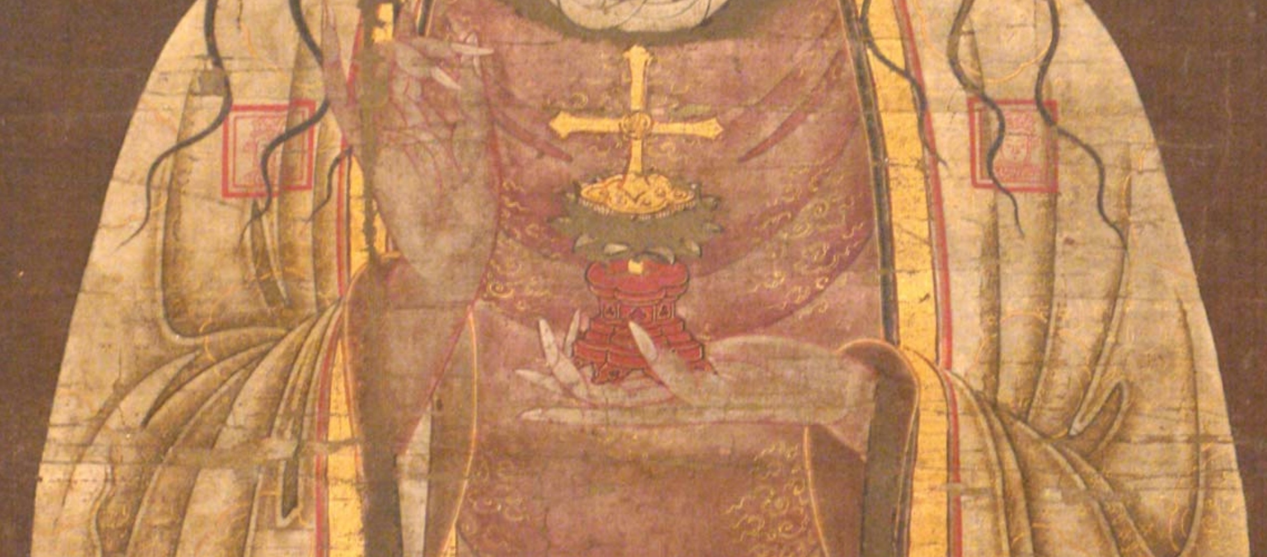 Jesus Christ as a Manichaean Prophet, detail of the golden cross.